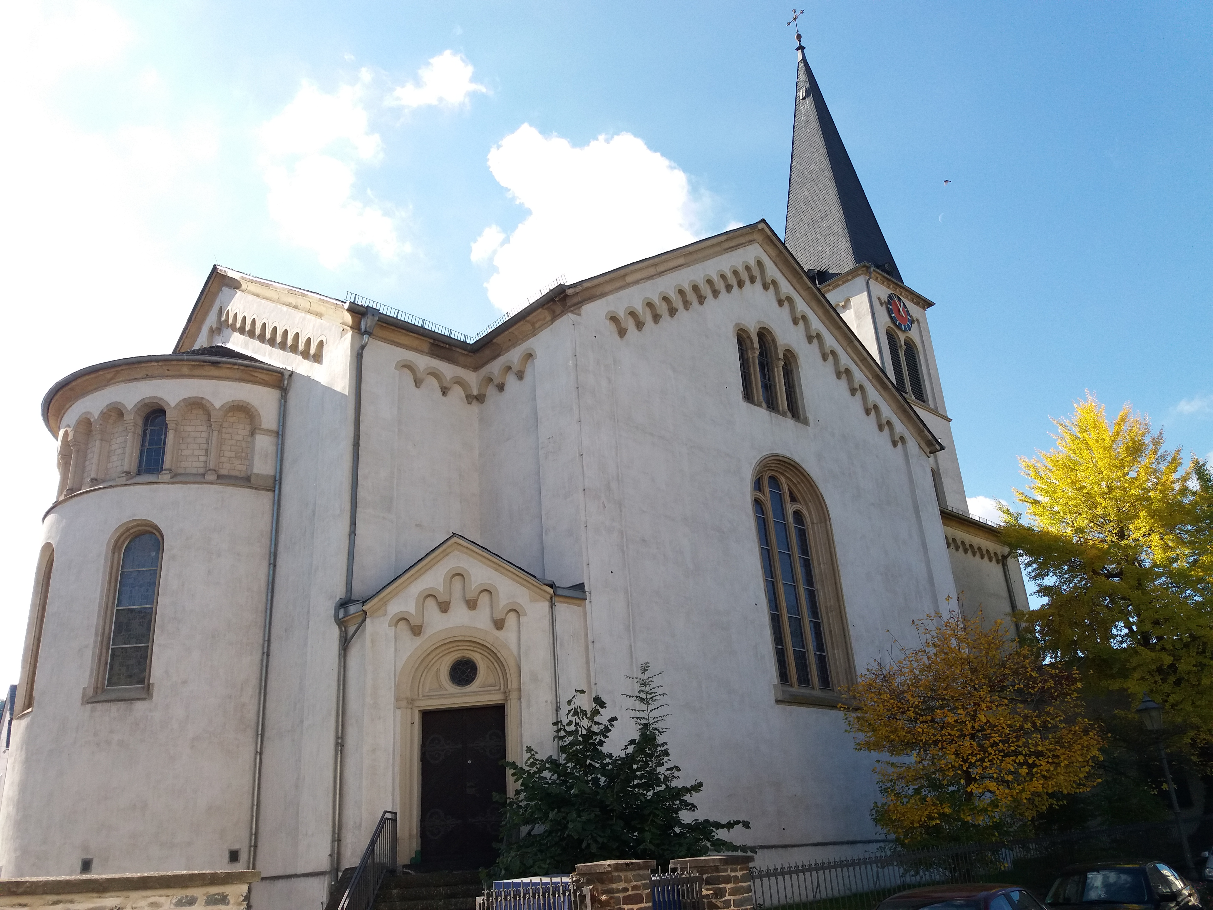 Christ Church Boppard